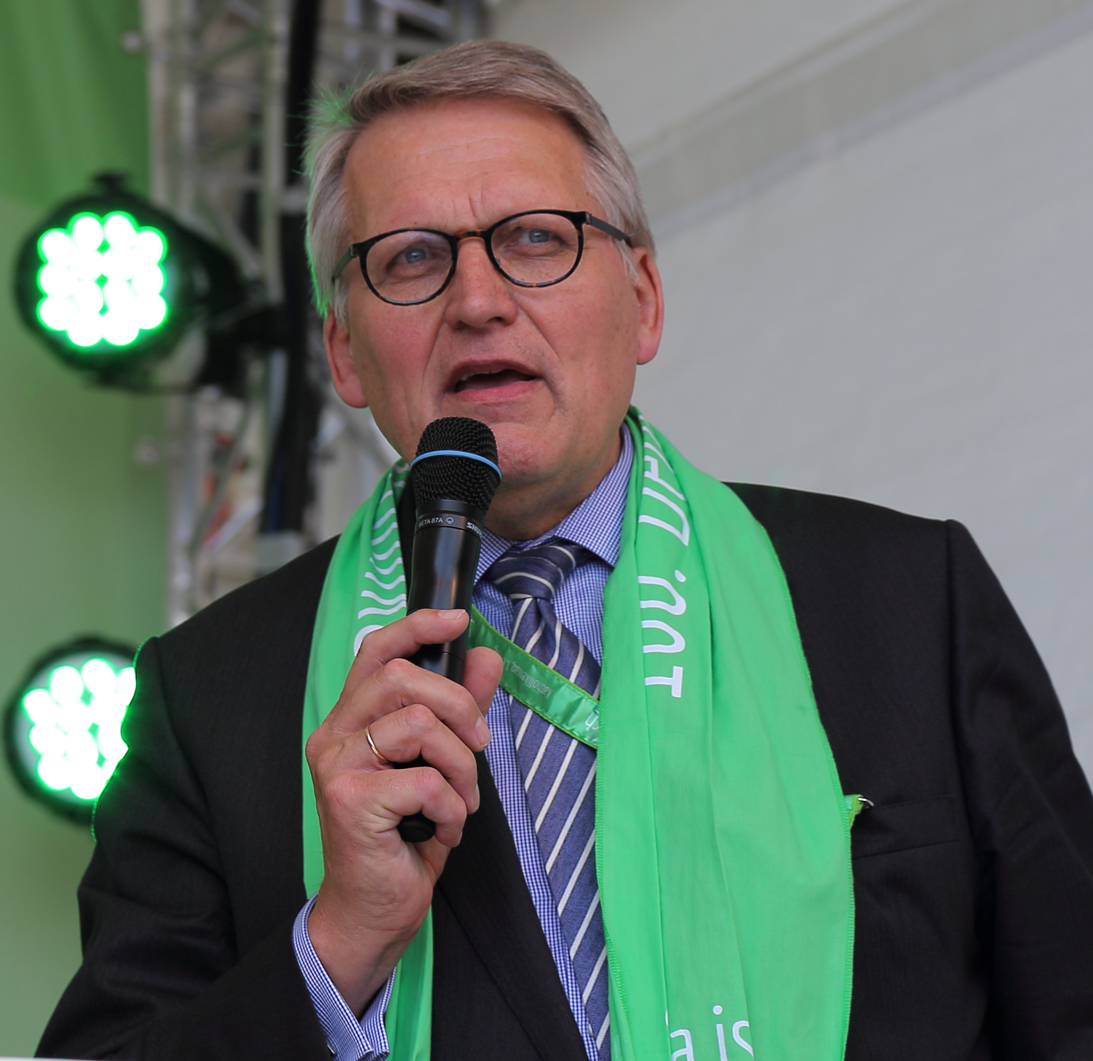 Professor Dr. Dr. Thomas Sternberg, chairman of the Central Committee of German Catholics (Zentralkomitee der deutschen Katholiken, ZdK). Picture taken at the occasion of the 100th German Katholikentag (Deutscher Katholikentag) in Leipzig, Saxony, Germany.